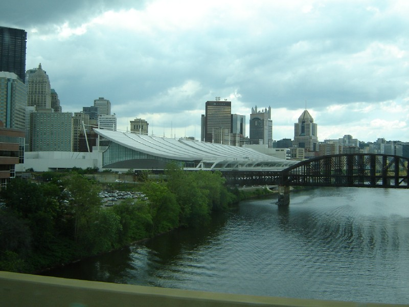 The David L. Lawrence Convention Center, seen from a nearby bridge. The picture is taken on June 7th, 2006.